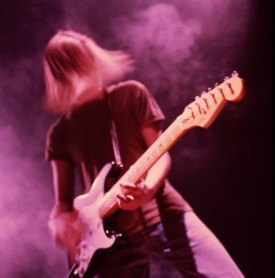 Taken by me in 1994